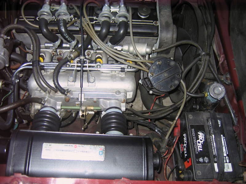 1976 Chevrolet Cosworth Vega engine